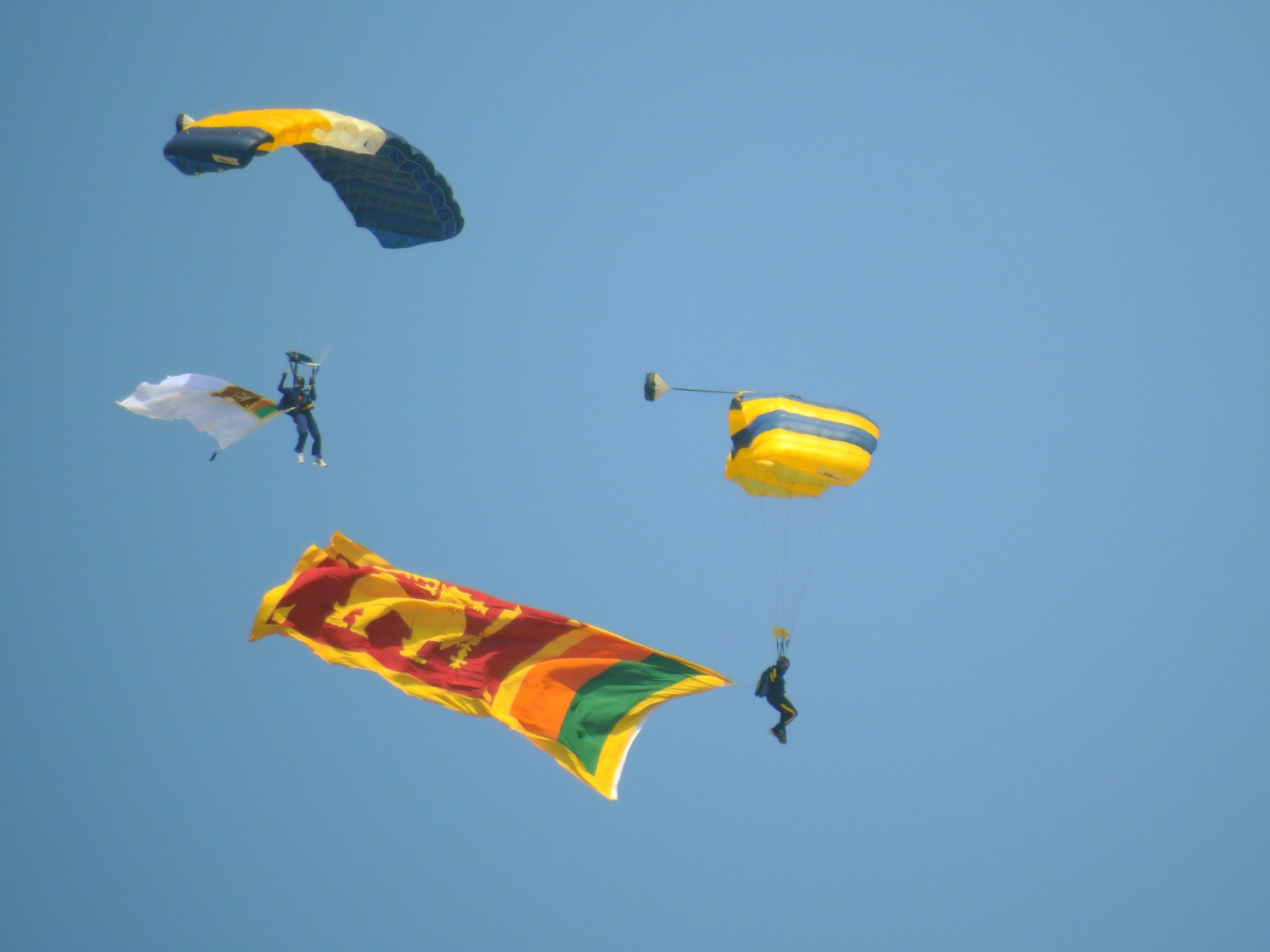 Sri Lanka's 70th Independence Day parades. 4th February 2018.